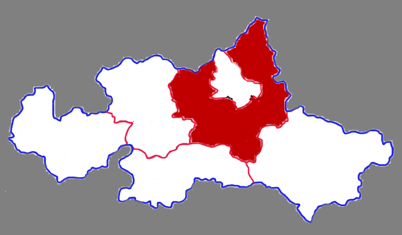 Location of Daiyue district in Taian City, China